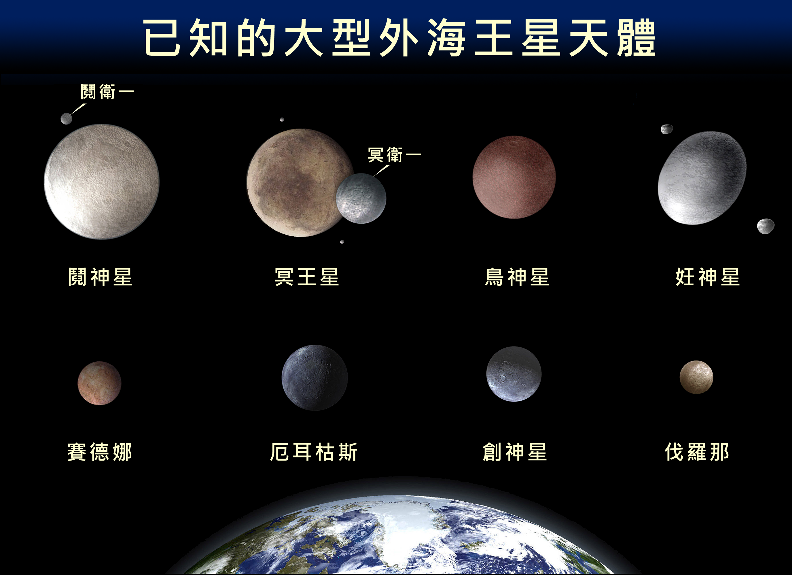 Comparison of the eight largest TNOs Text properties for future modification: Font is Microsoft Jhenghei Size is 150 pt for title, 72 pt for objects, 60 pt for moons Colour is FFFFCE Style is Bold Anti-aliasing (in Photoshop) is Sharp